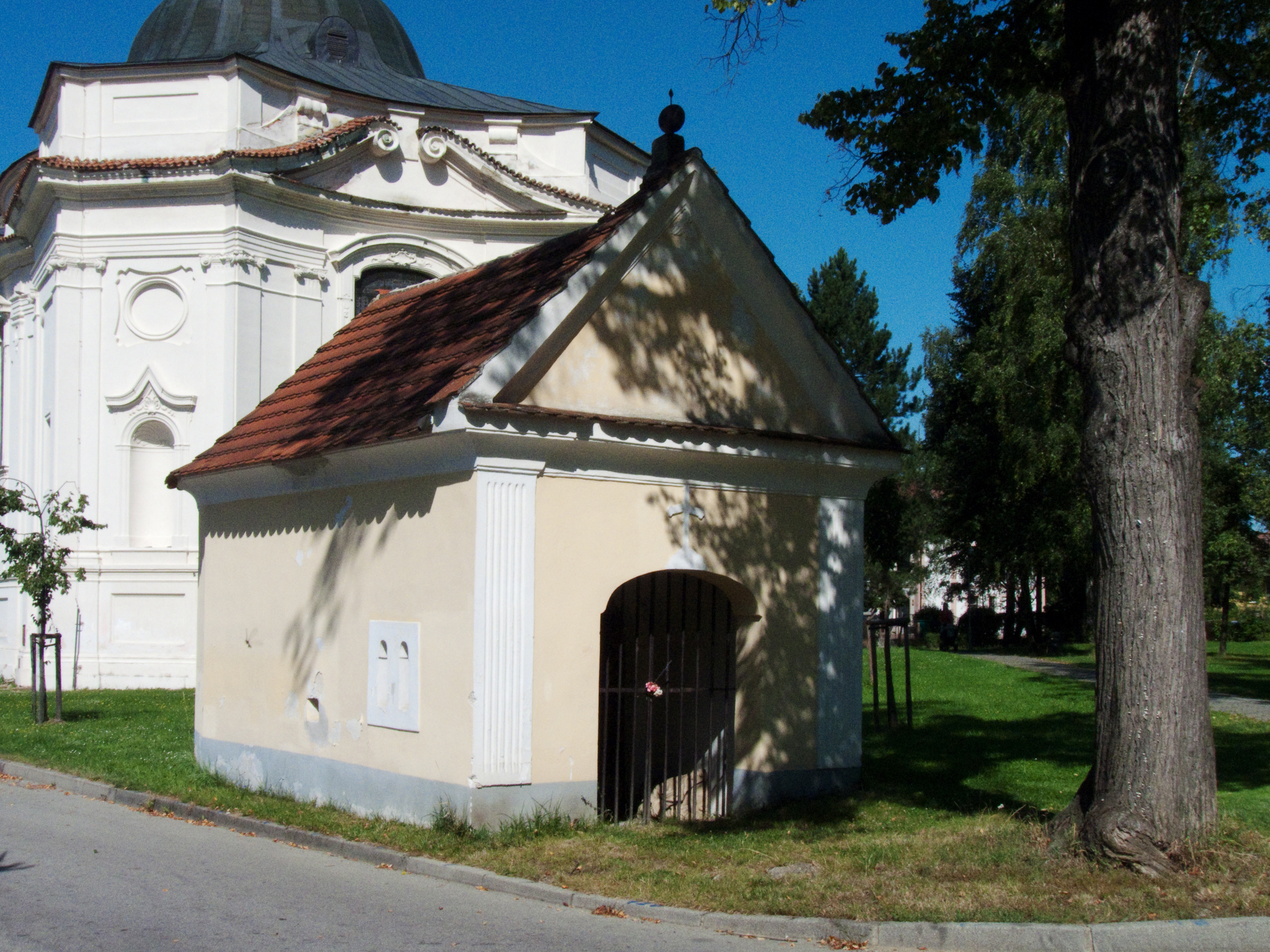 Chapel at the church in the village of Dobrá Voda u Českých Budějovic, České Budějovice District, Czech Republic